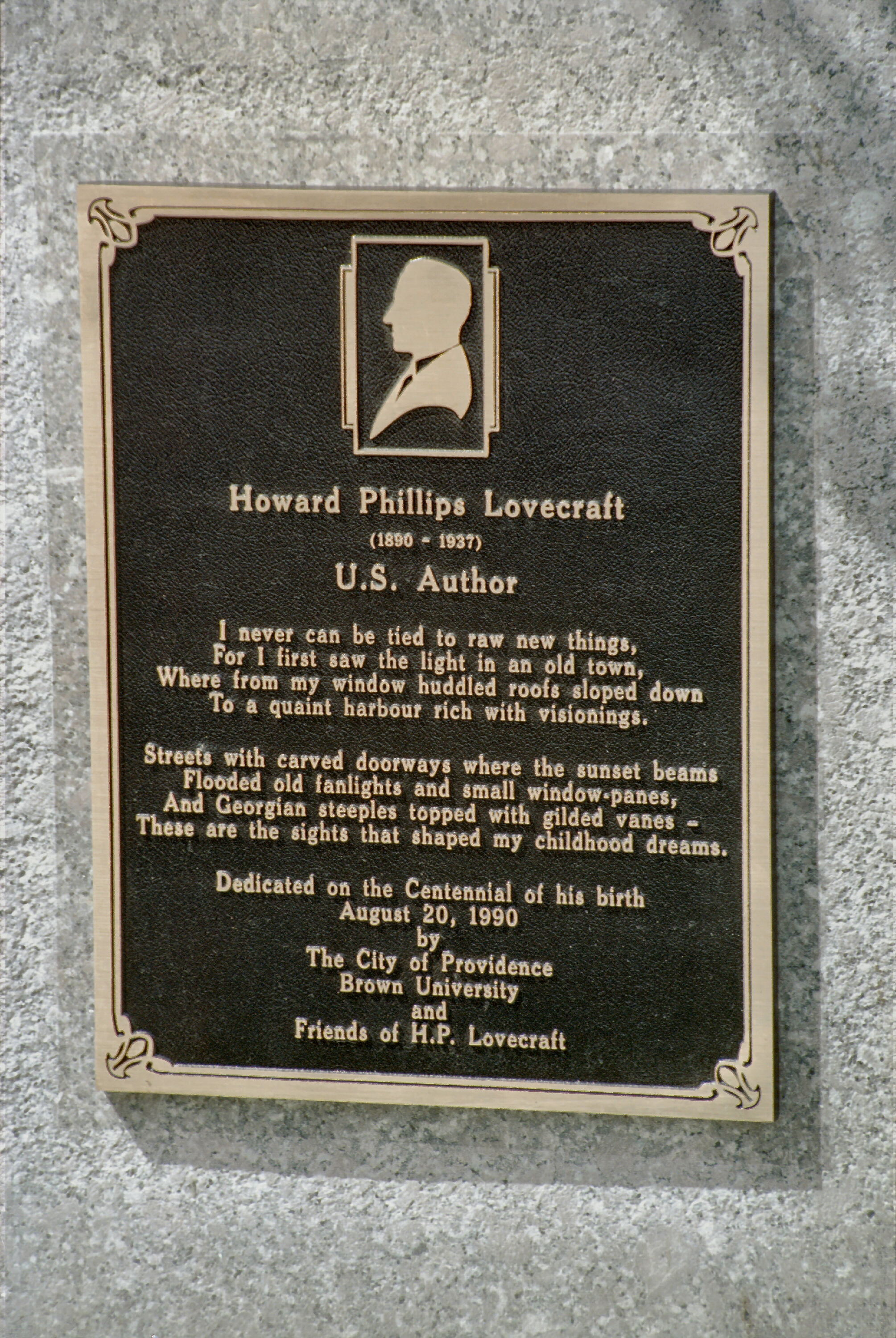 The H. P. Lovecraft Memorial Plaque was unveiled on 19-August-1990 by The Friends of H. P. Lovecraft; and officially dedicated on 20-August-1990 by The City of Providence, Brown University, and The Friends of H. P. Lovecraft. The Friends of H. P. Lovecraft, the brainchild of Jon B. Cooke, really took off in earnest on May 11, 1990, when Cooke teamed up with S. T. Joshi and Will Murray to broadcast an appeal for funds for the H. P. Lovecraft Memorial Plaque to be dedicated to the Providence fantasy writer on the grounds of Brown University's John Hay Library on the centennial of Lovecraft's birth on Monday, August 20, 1990. The full story of how this all came about can be read in the 1990 Necronomicon Press booklet, "The H. P. Lovecraft Memorial Plaque" by "The Friends of H. P. Lovecraft". Photo taken by Will Hart on 20-August-1990.